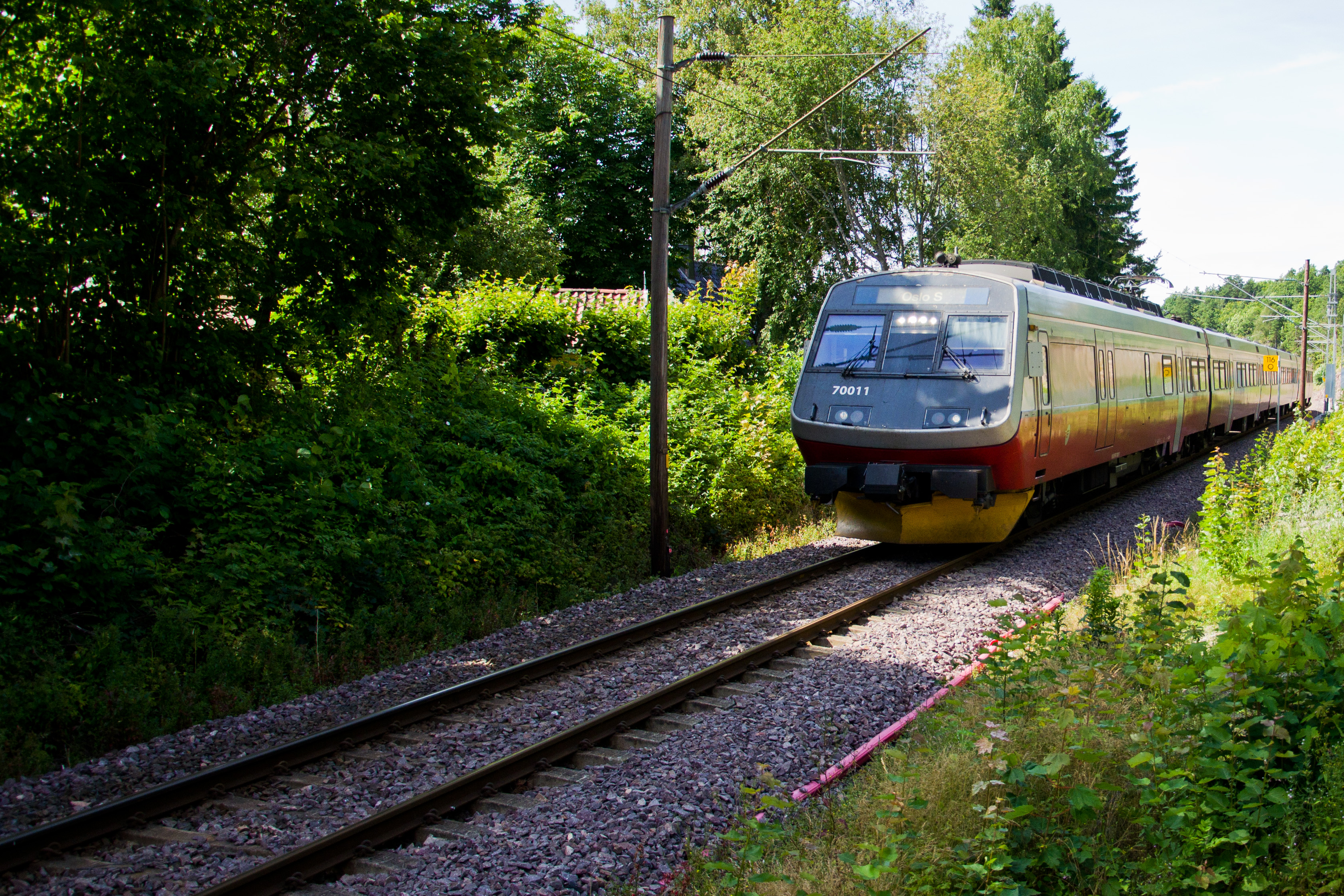 Norwegian State Railways (NSB) Class 70 on the Vestfold Line in Tønsberg.